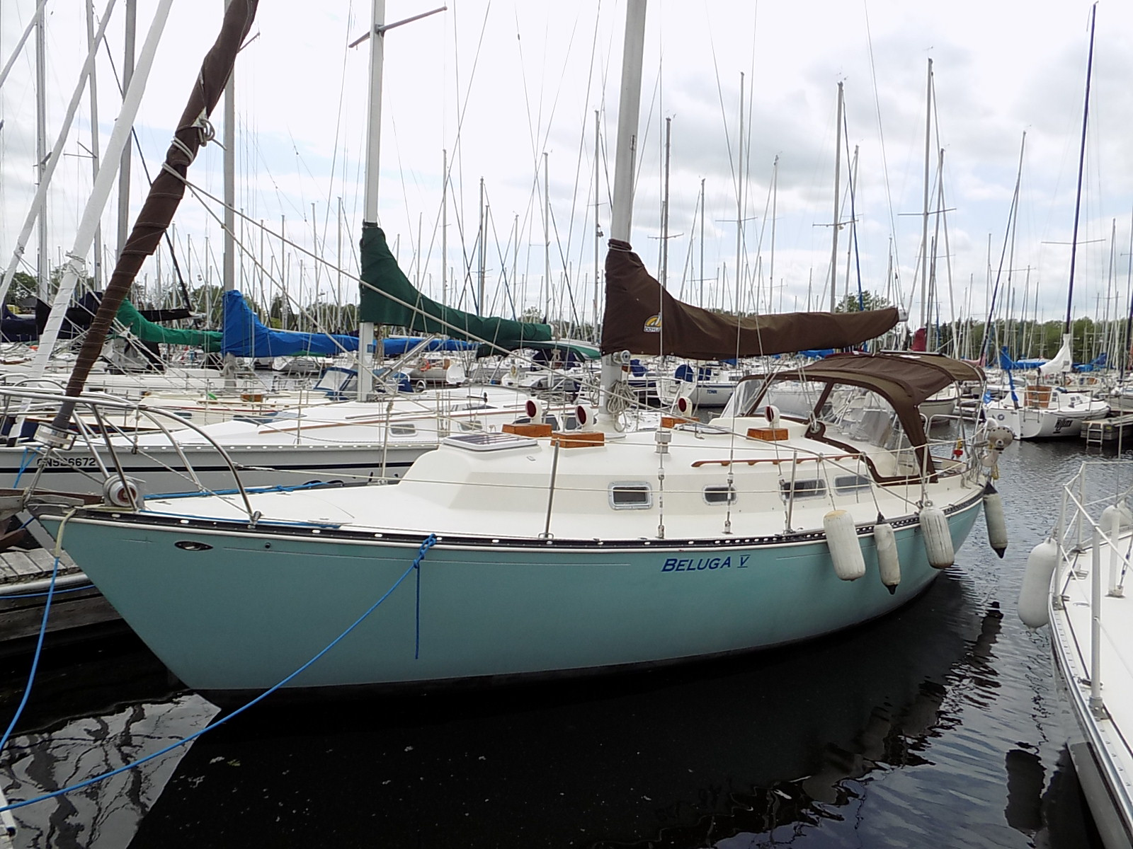 An Ontario 32 sailboat named Beluga V.